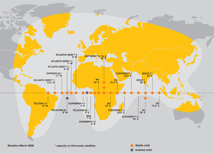 Eutelsat's satellite fleet on the geostationary arc (2008)